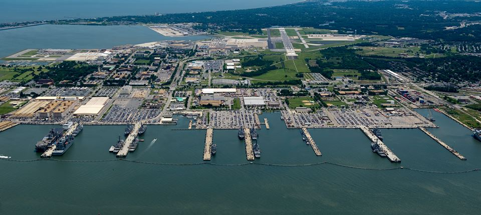 Overview of Naval Station Norfolk